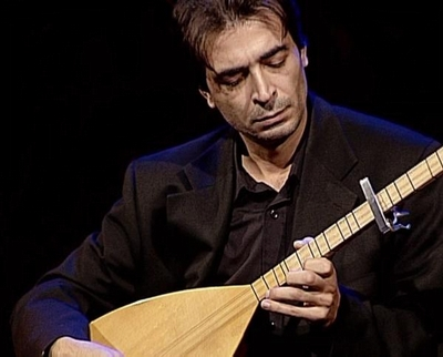 Ercan Şahin'in 2006 yılı "Selam" isimli albümünden seçilmiş resmi.